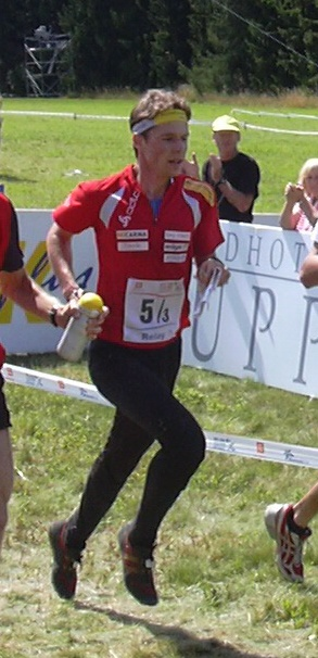 World Orienteering Championships 2008 in Olomouc, Czech Republic. On photo Daniel Hubmann.